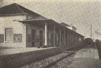 Beja Train Station, in the Alentejo Railway, in Portugal. This photograph was taken after the construction of a new station building, in 1940. This photograph was published on the Gazeta dos Caminhos de Ferro magazine No. 1297, of 1st January 1942, and scanned by the Hemeroteca Municipal de Lisboa.